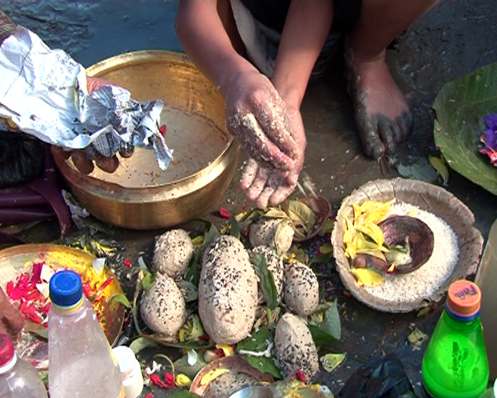 Hindu culture